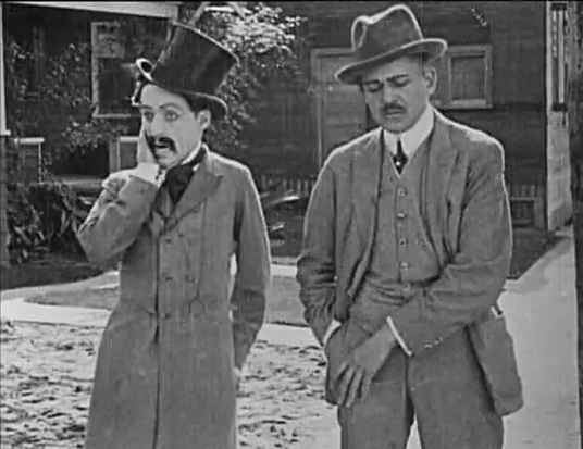 Screenshot of Charlie Chaplin in Making a Living (1914), his first film appearance.